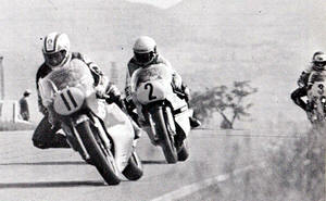 Marco Lucchinelli and Kenny Roberts at the Nations Grand Prix in Mugello 1978